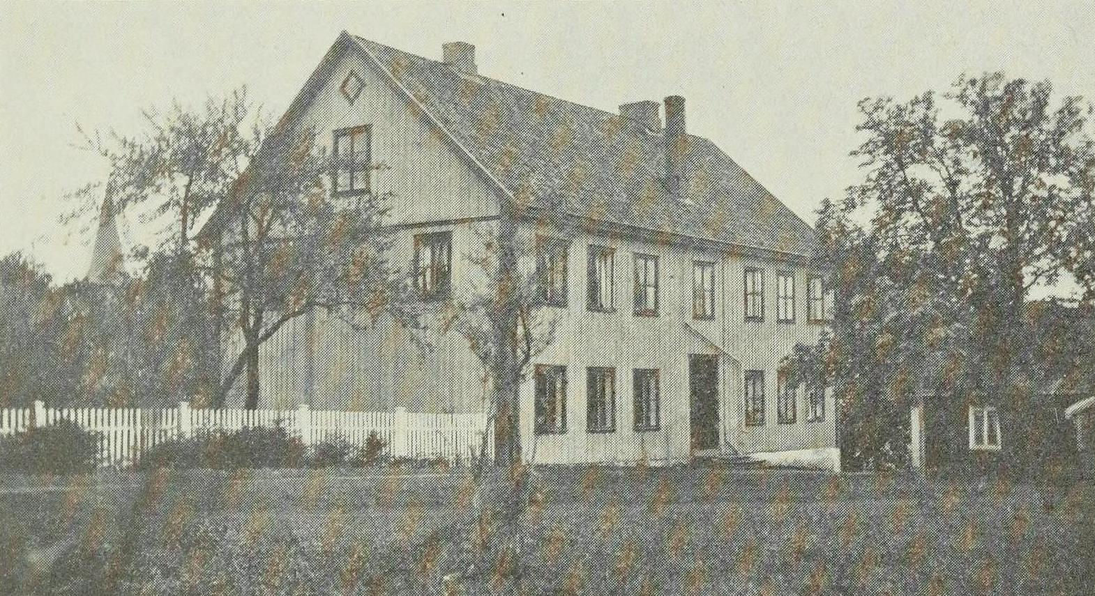 Asker prestegård. Illustrasjon hentet fra boken "Asker" av Torgersen, Halvard og utgitt av Grøndahl (Kristiania, 1917), via Lokalhistoriewiki. Beskåret.